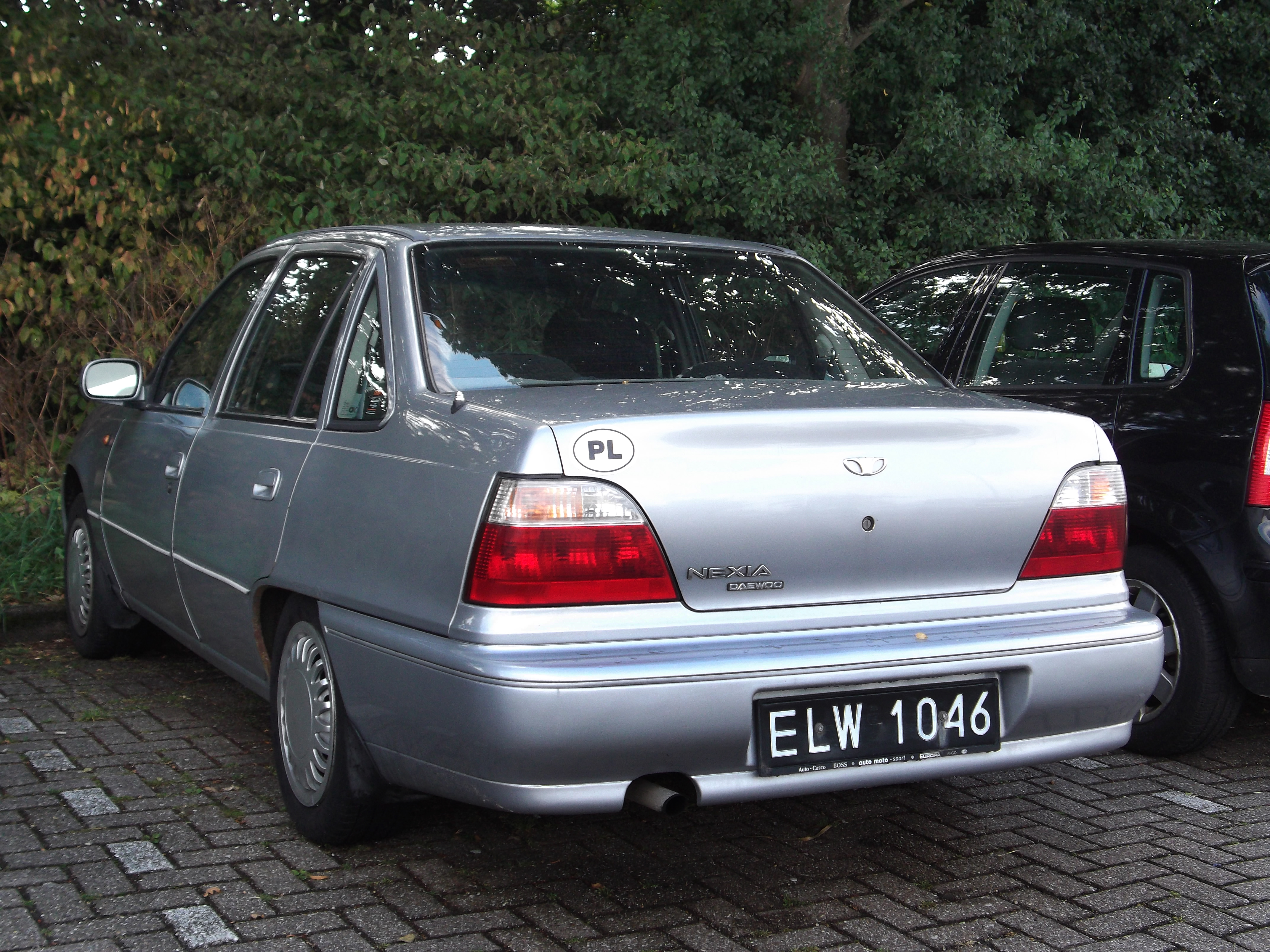 Polish license plate (old style).